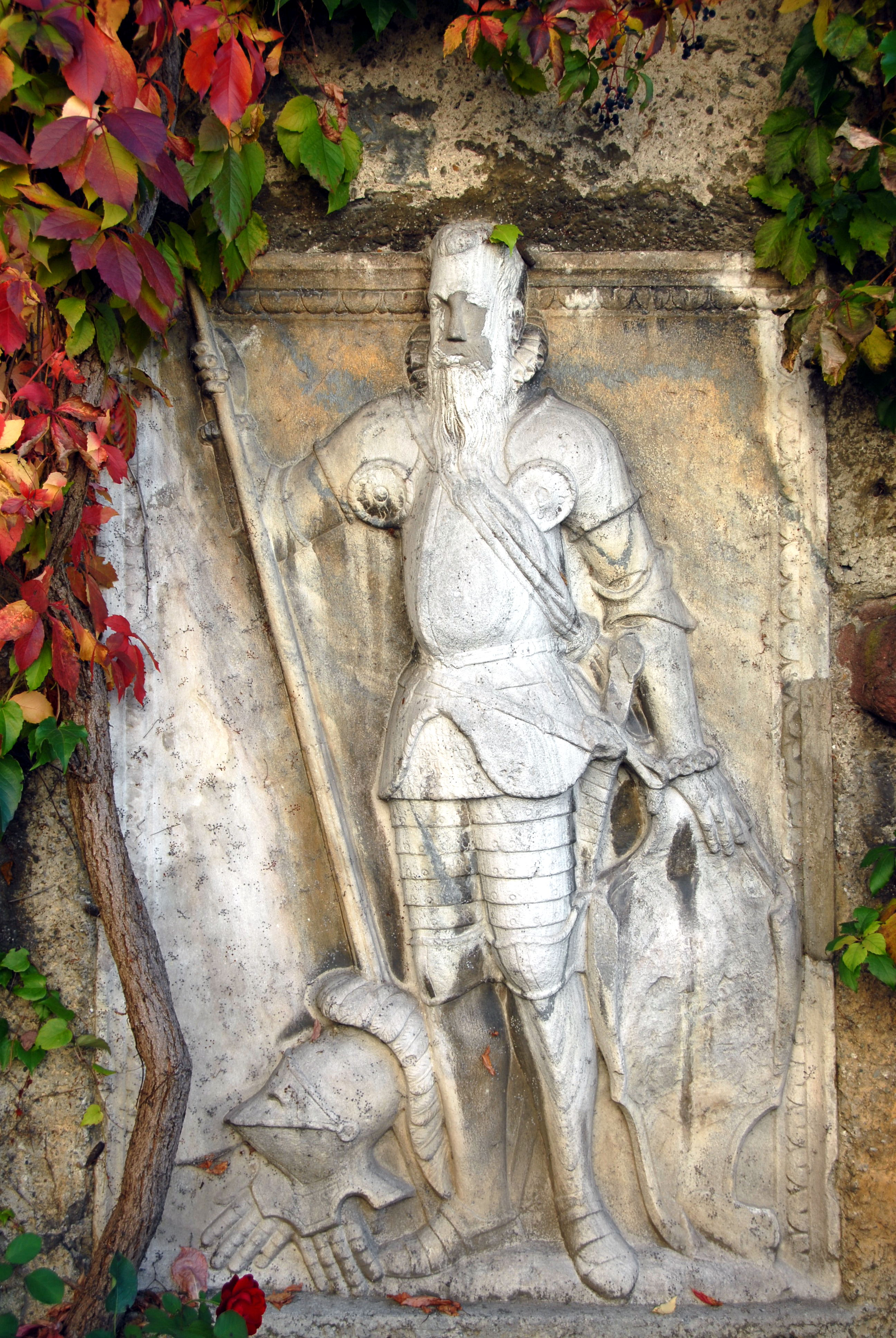 Brass of noble Sonnegg, exposed at the base of the city tower in Voelkermarkt, Carinthia, Austria